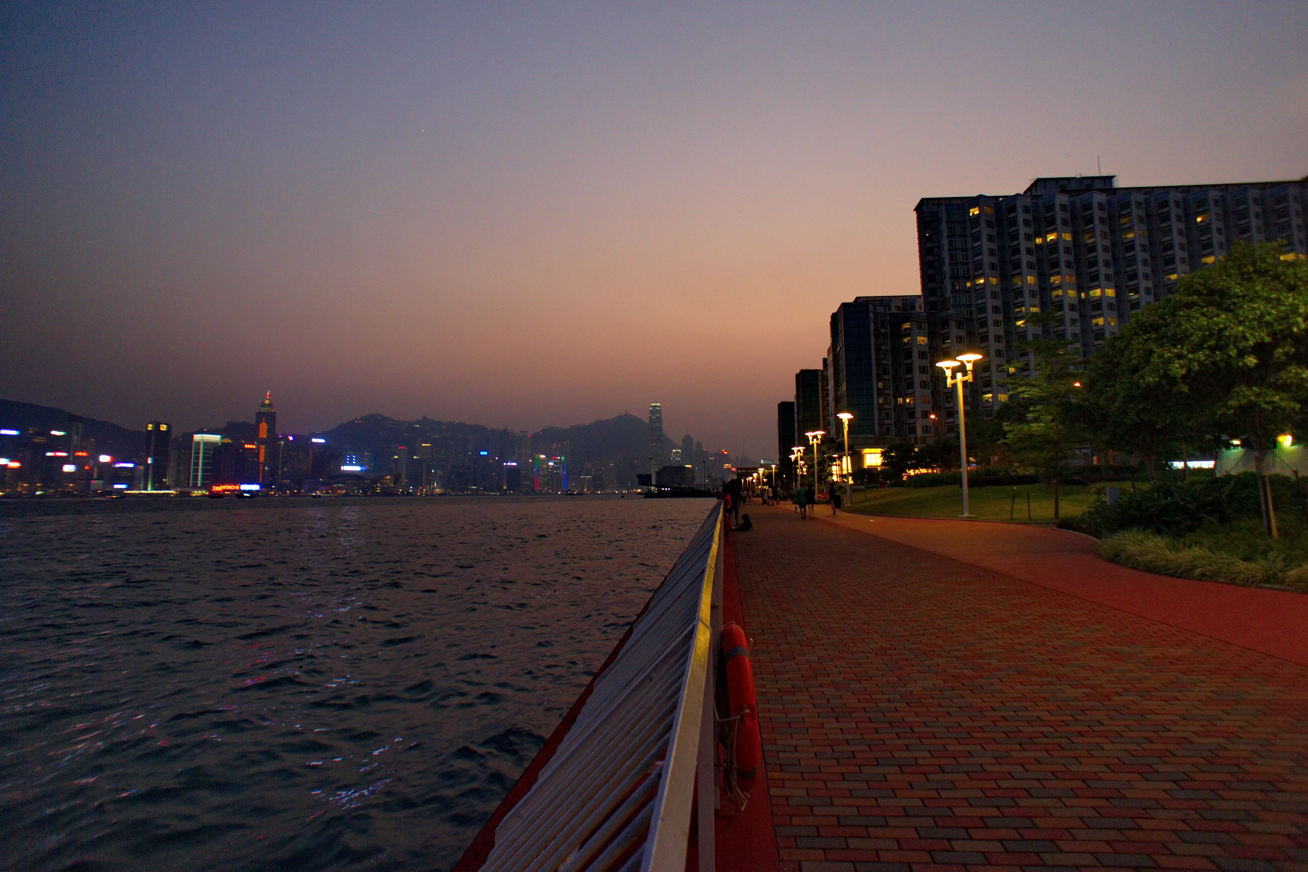 Hung Hum Promenade at dusk, Kowloon, Hong Kong.